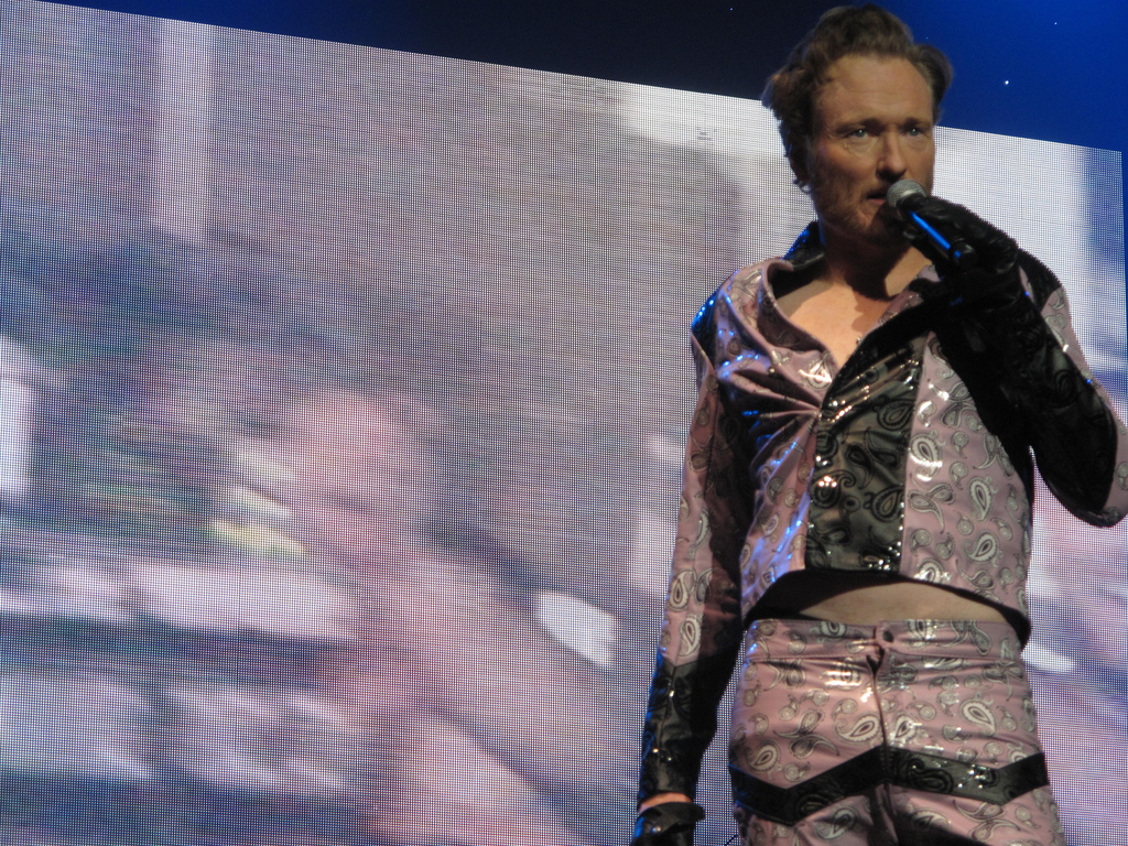 Conan O'Brien performing in a replica of the suit worn by Eddie Murphy in Eddie Murphy Raw during the April 29, 2010 performance of The Legally Prohibited from Being Funny on Television Tour at the San Diego Civic Theatre.